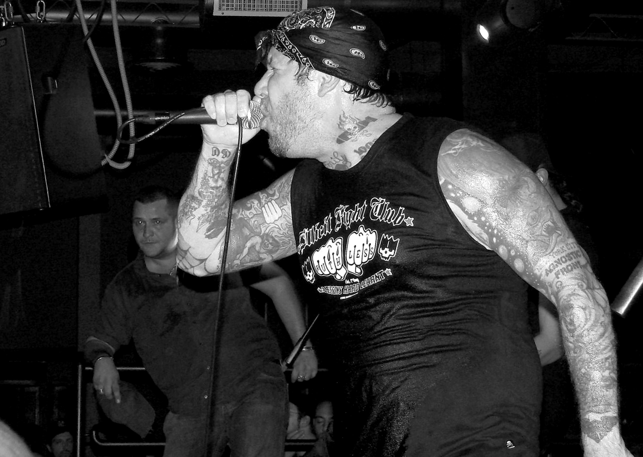 Roger Miret of Agnostic Front live in Rome, 23 nov 2007, alpheus.